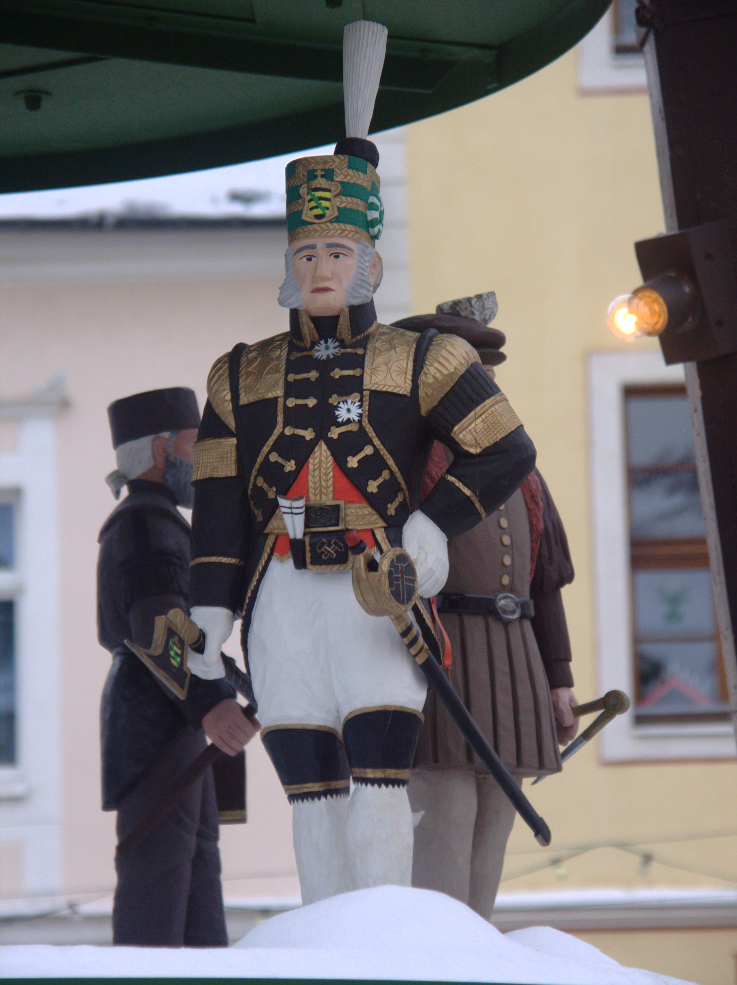 Detail of the christmas pyramid in Schneeberg (Erzgebirge)